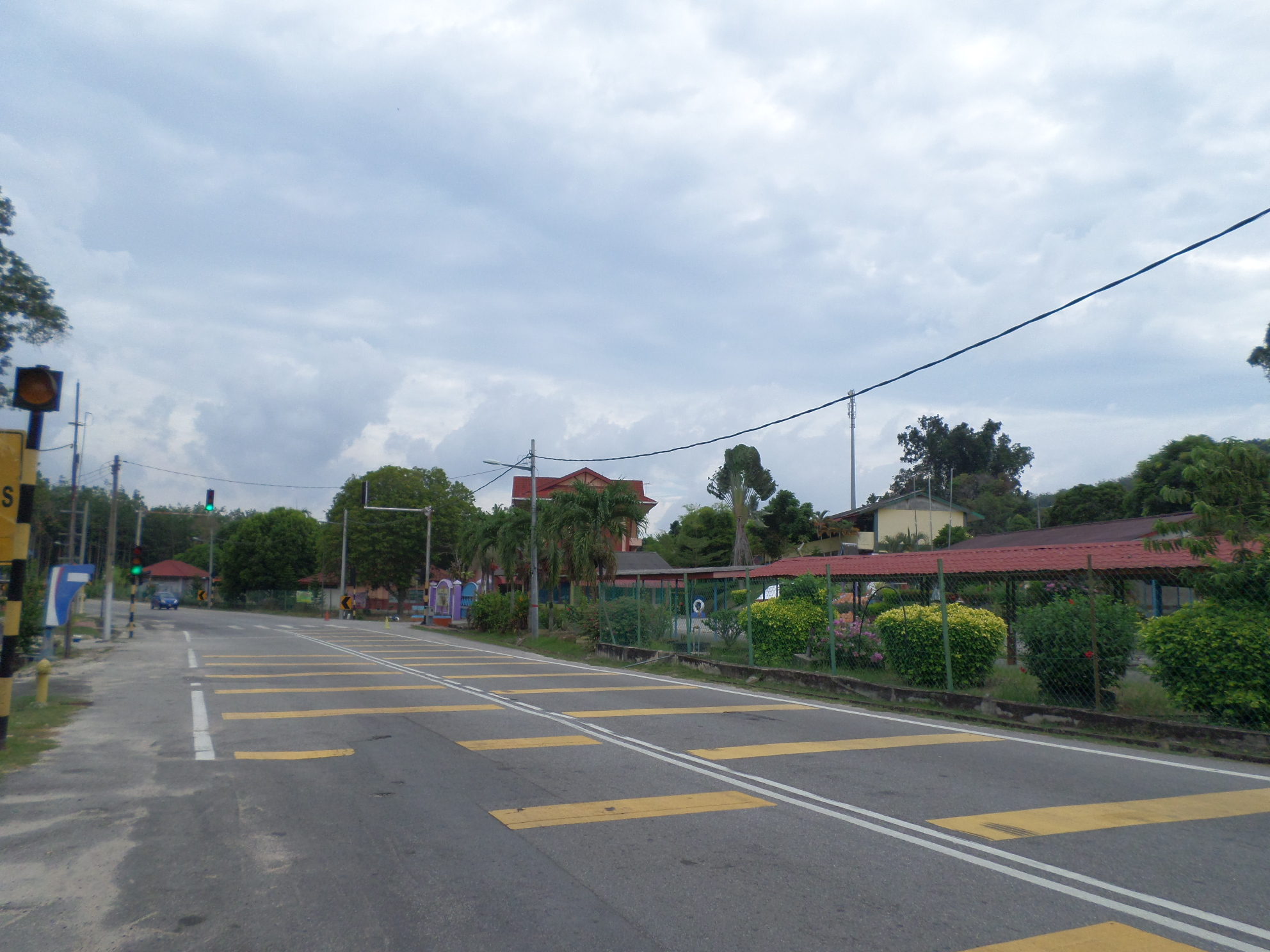 Batang Melaka, Jasin, Melaka, MalaysiaBahasa Melayu: Batang Melaka, Jasin, Melaka, Malaysia